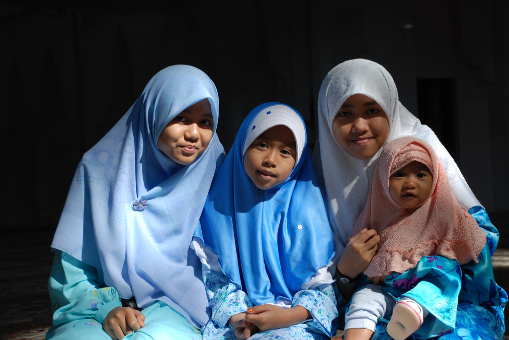 Muslims girls of Malaysia, wearing the common tudung.